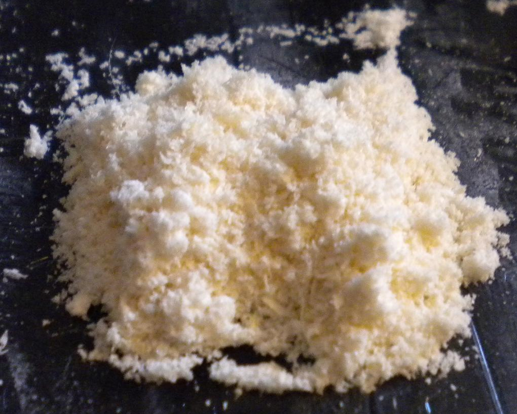 Mescaline extracted from cactus, 100% all natural.